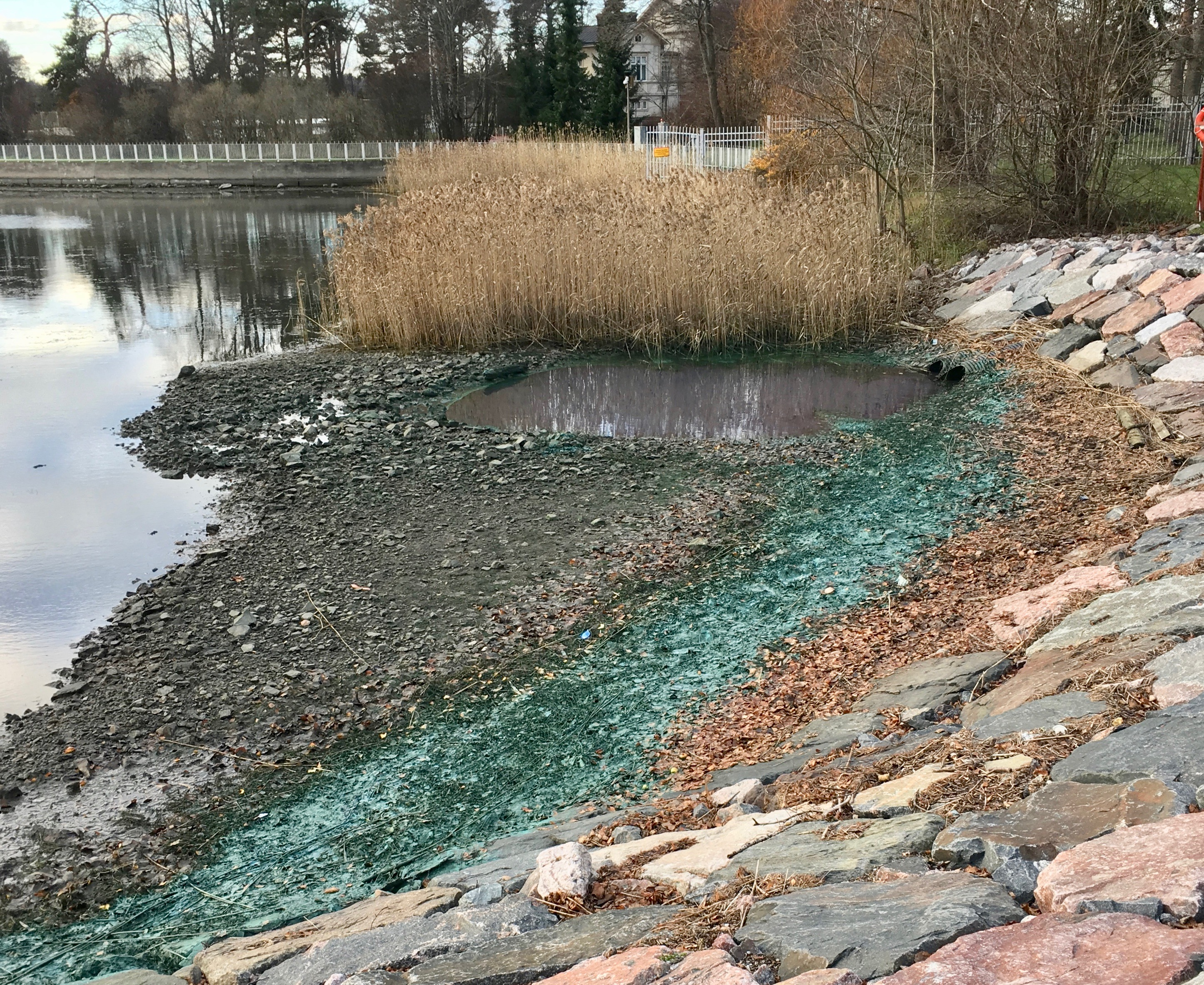 Aphanizomenon cyanobacteria on beach. Helsinki November 2018